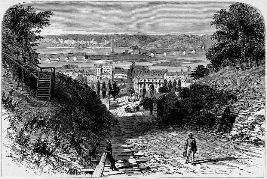 Bridges on the Mississippi, at Dubuque, a wood engraving published in Picturesque America (1872), New York: D. Appleton & Company. Note: Looking Northeast, across the Mississippi, from Iowa, the Illinois Central railroad bridge is in the background with the Dubuque Shot Tower immediately behind and upstream. Both features are extant as of 2012, the bridge was updated early in the twentieth century.